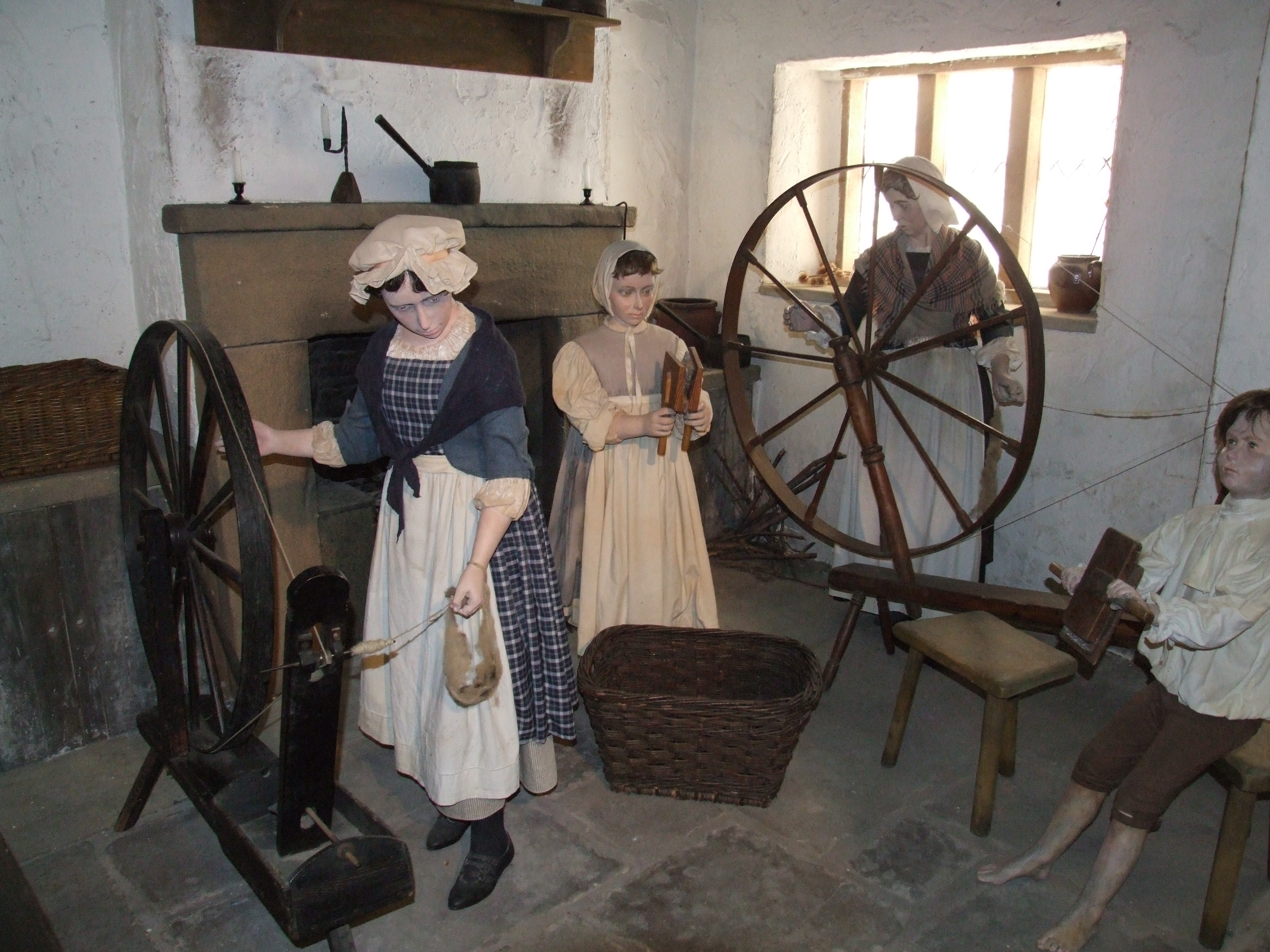 Helmshore Mills Textile Museum.